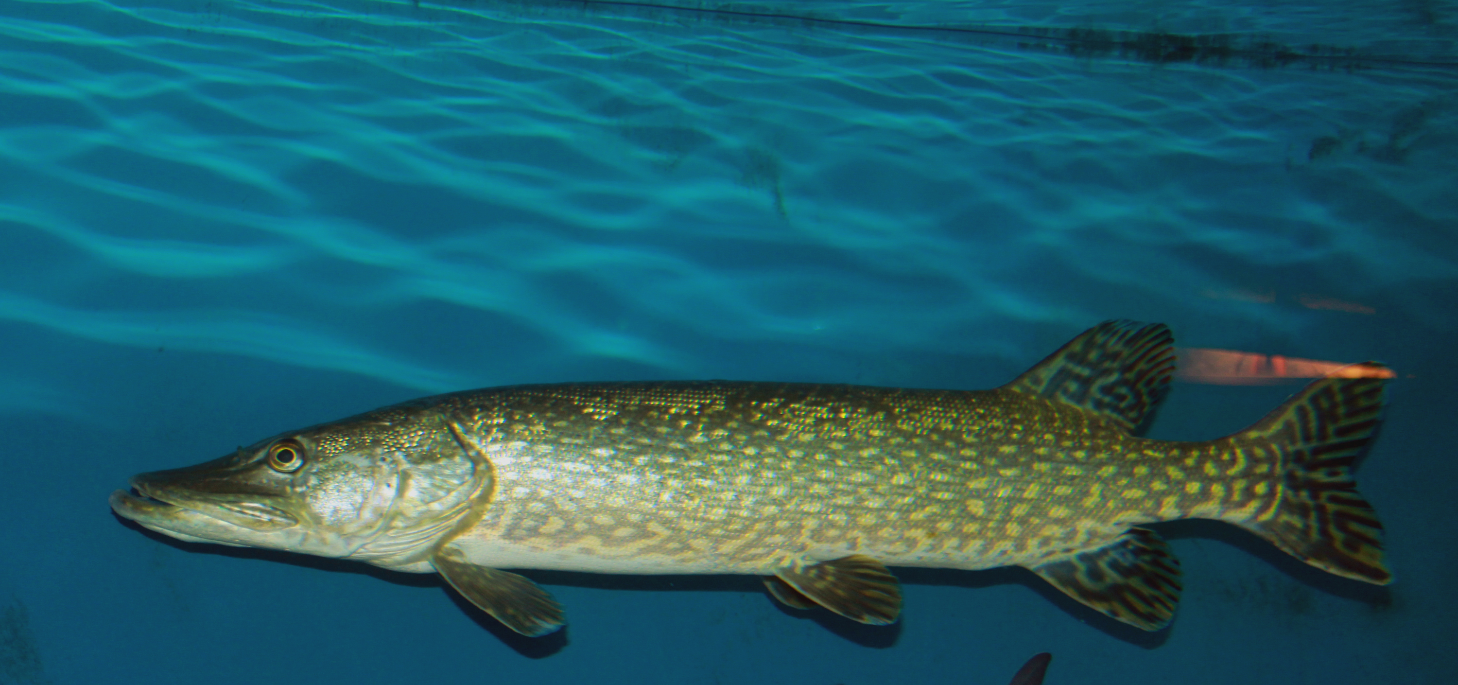 Northern pike on exhibition Subaqueous Vltava, Prague 2011, Czech Republic